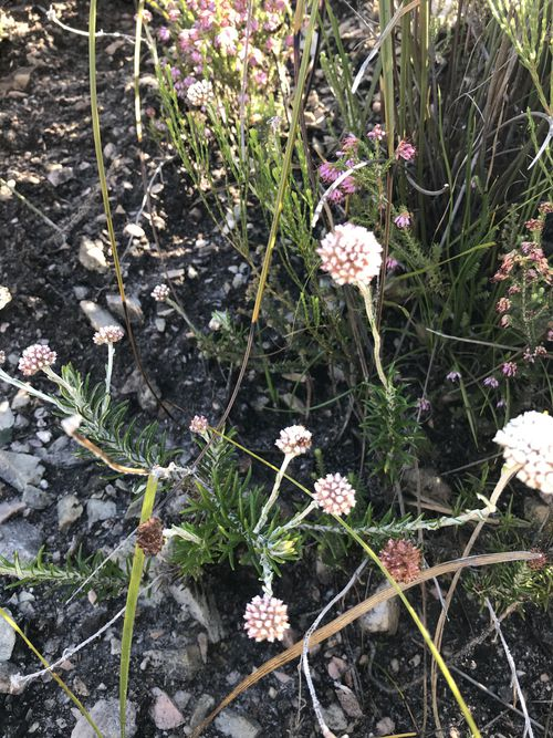 Anaxeton asperum plants observed in South Africa